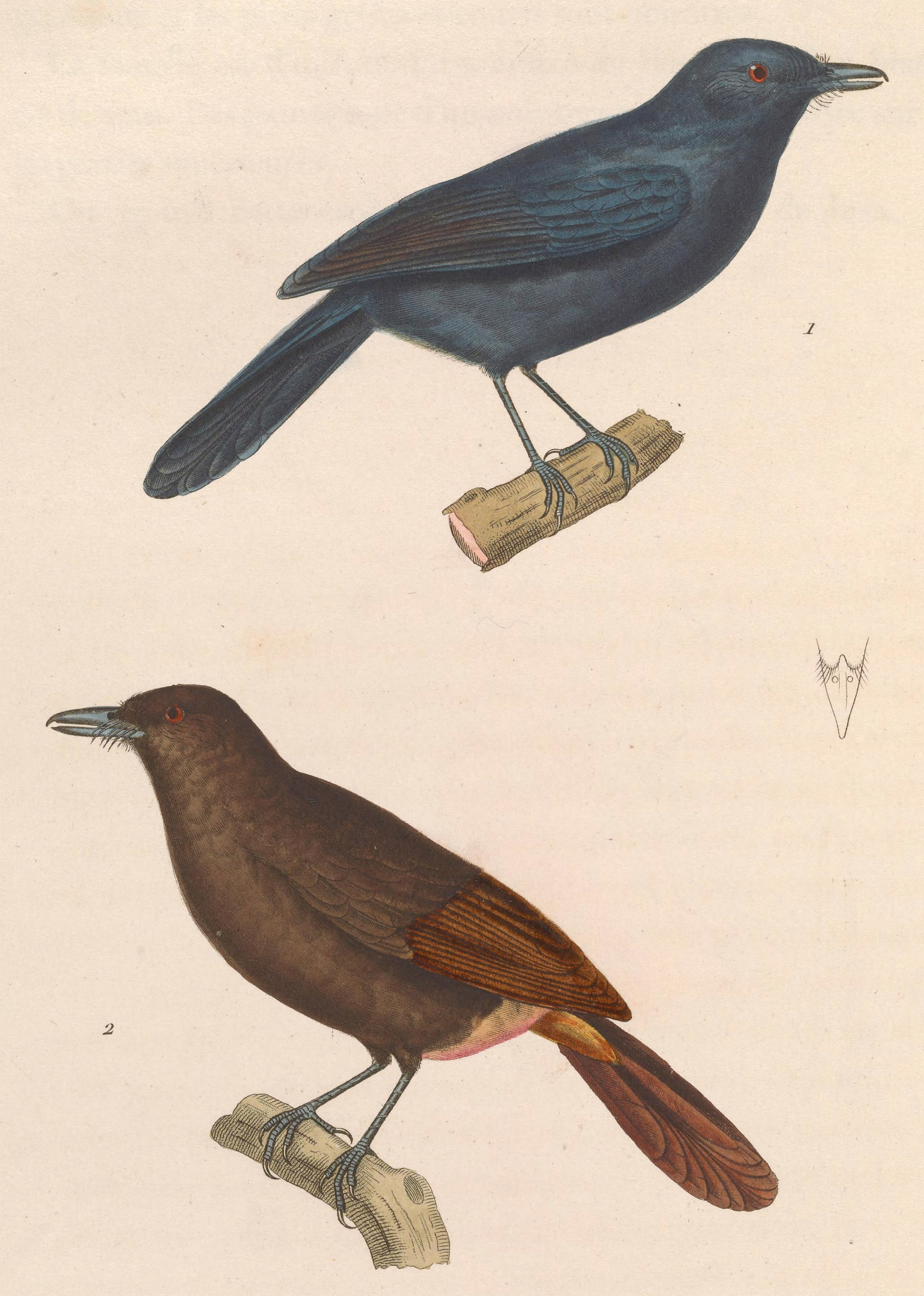 « Muscicapa caesia » = Thamnomanes caesius (Cinereous Antshrike) - male and female